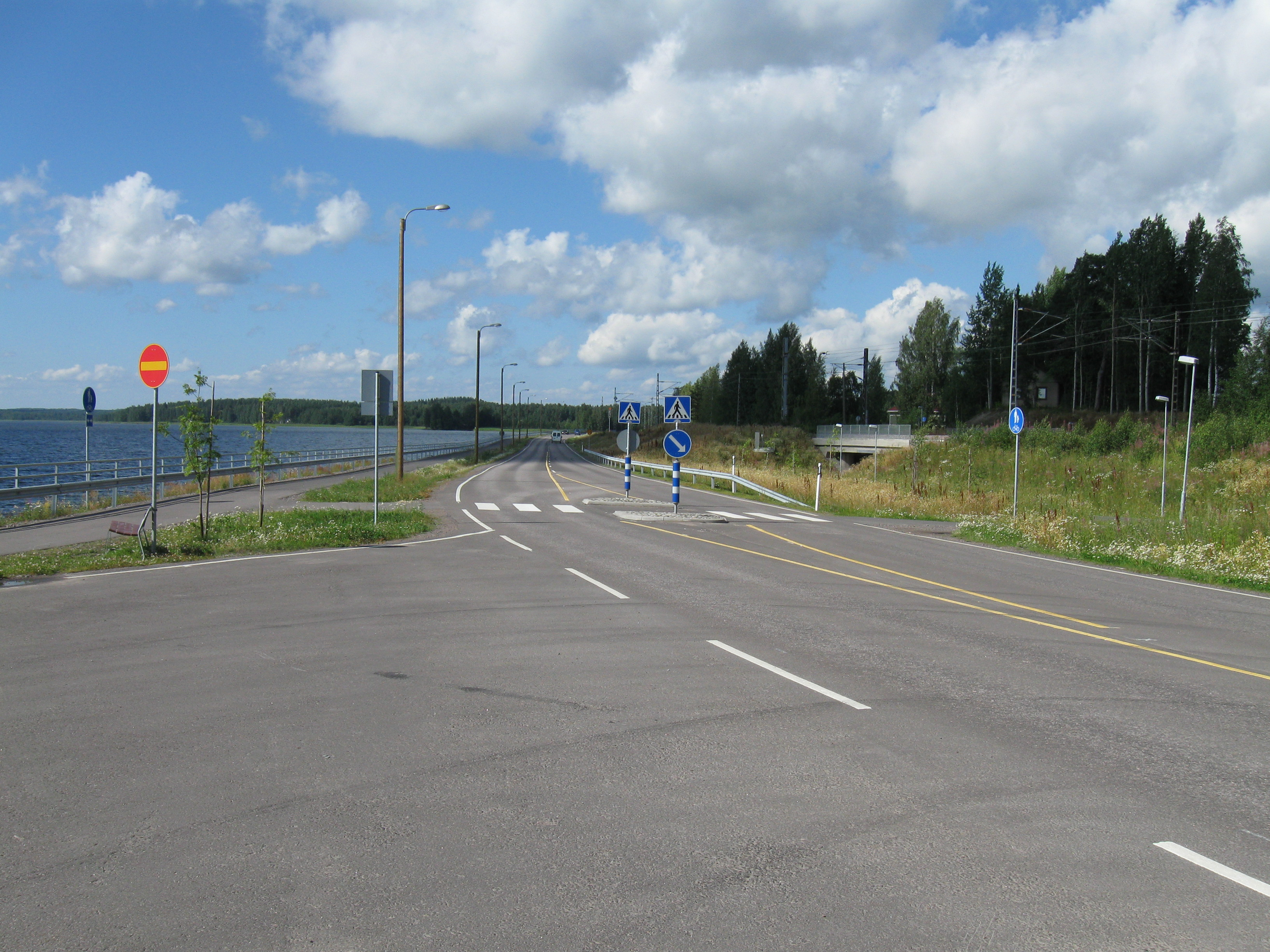 The new connecting road 4015 to Parikkala taken in use in 2009, seen at Kukonkanta towards Moskuunniemi.